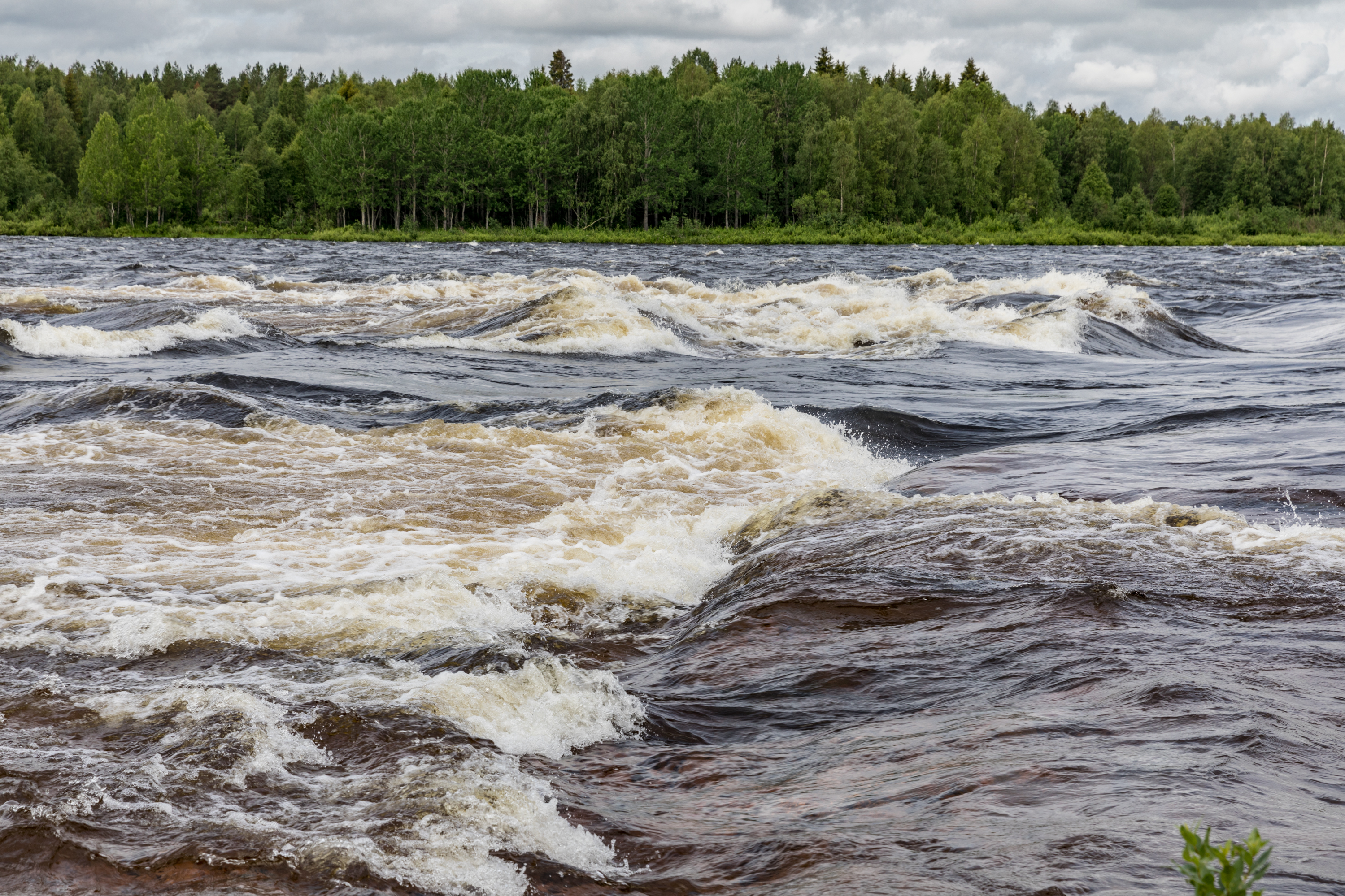 Kattilakoski, Tornionjoki, Pello